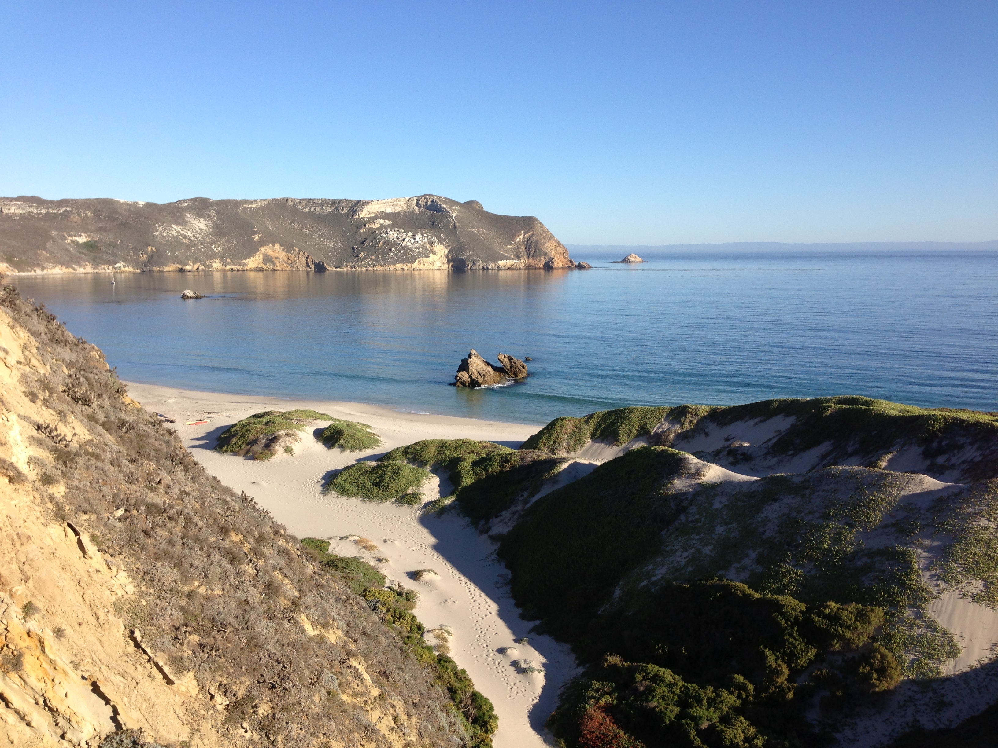 San Miguel Island, the northern-most Channel Island, is owned by the U.S. Navy but managed by the National Park Service. Photo by Steve Henry/USFWS.